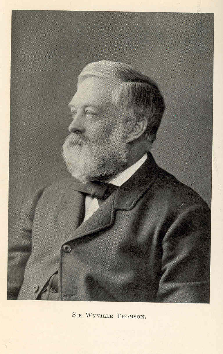 Sir Wyville Thomson Subject: Thomson, C. Wyville, Sir, 1830-1882, Oceanographers Tag: People